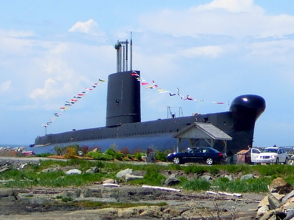 Ex. Canadian submarine: Onondaga(S73)museum ship in 2009.